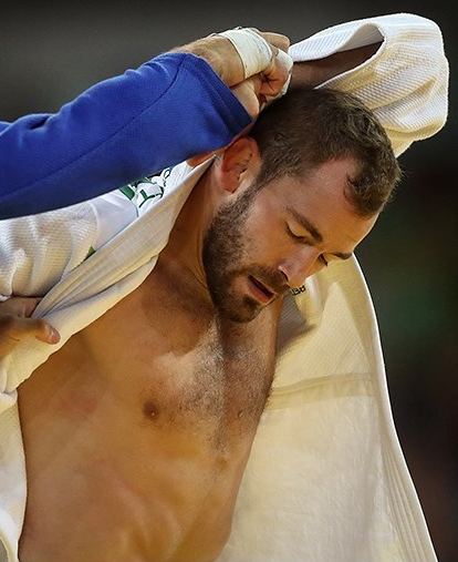 2016 Summer Olympics Judo, August 9